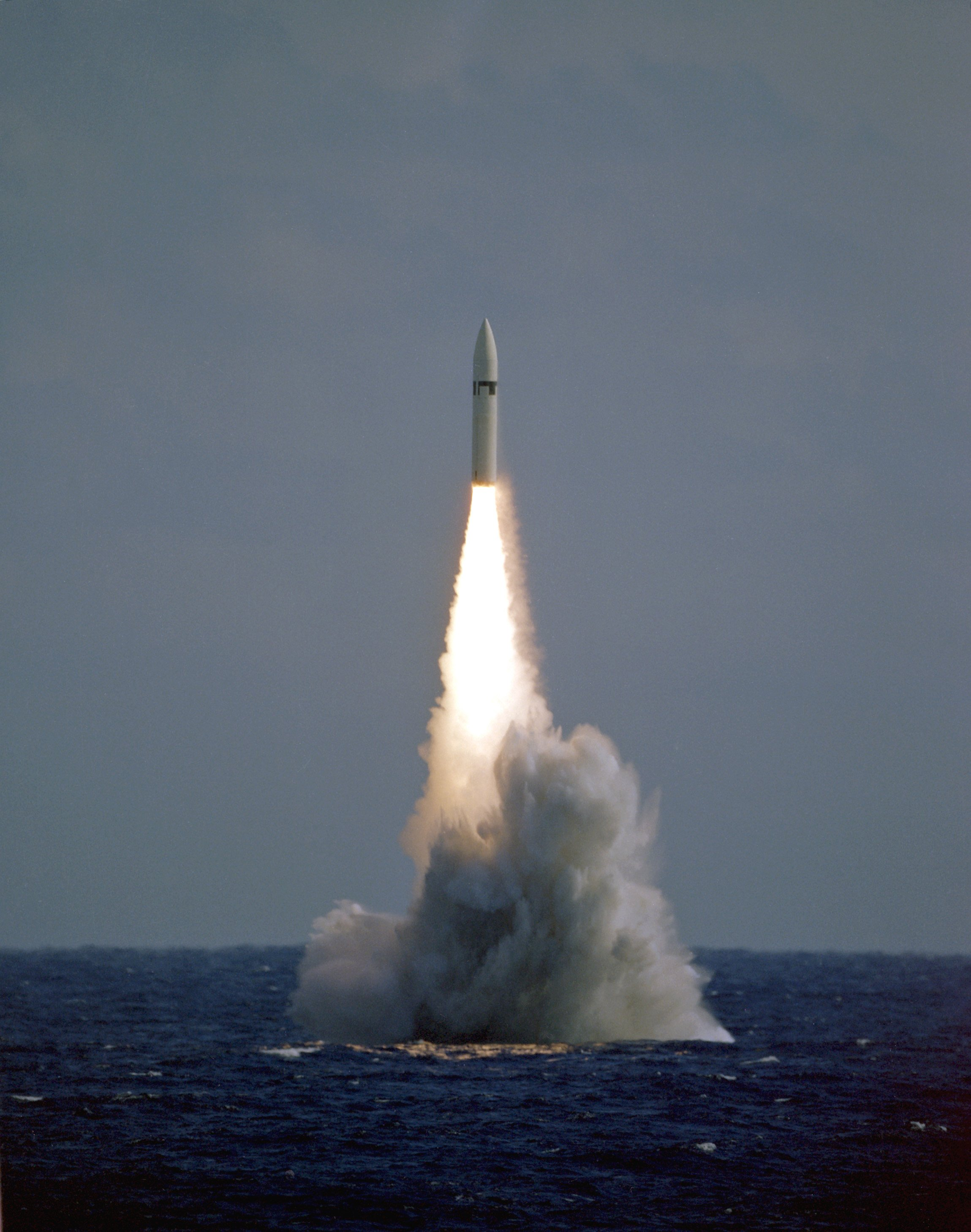 National Archive# NN33300514 2005-06-30 Released to Public ID: DF-SC-84-07332 Service Depicted: Navy A Polaris A3 fleet ballistic missile lifts off at 12:33 p.m. EST during a launch from the nuclear-powered strategic missile submarine USS ROBERT E. LEE (SSBN-601). The launch is taking place on the Eastern Test Range.